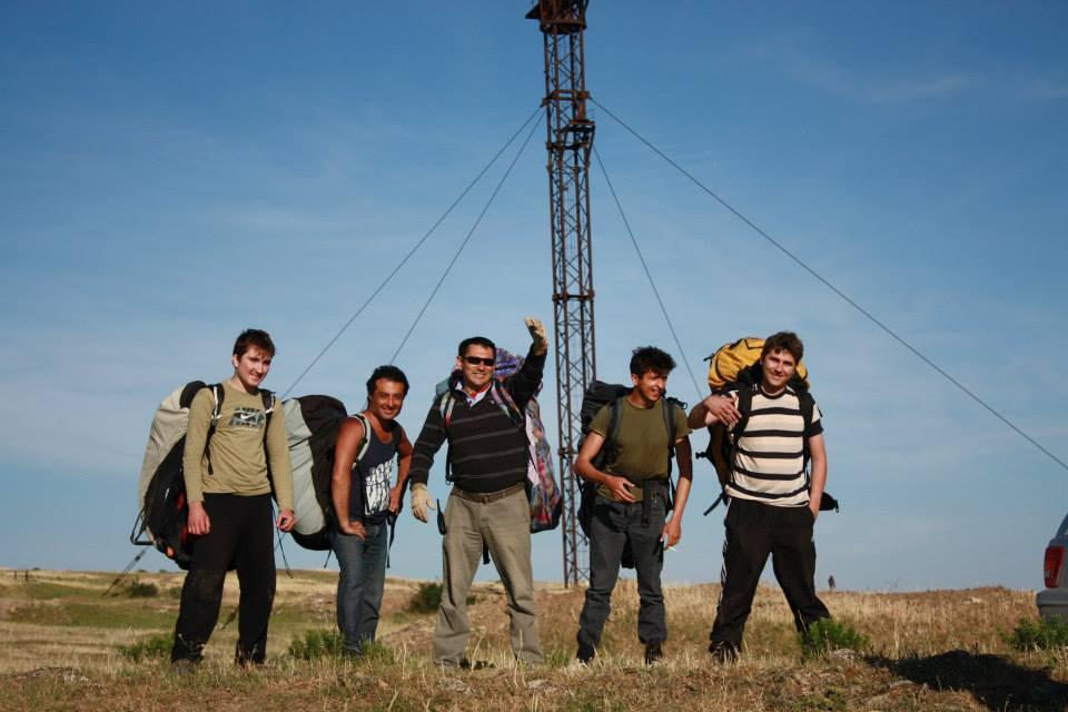 Nikolay Zakobluk, Jamal Kashkay, Firuz Takhirov, Ziya Qasimov, Aleksey Zakobluk